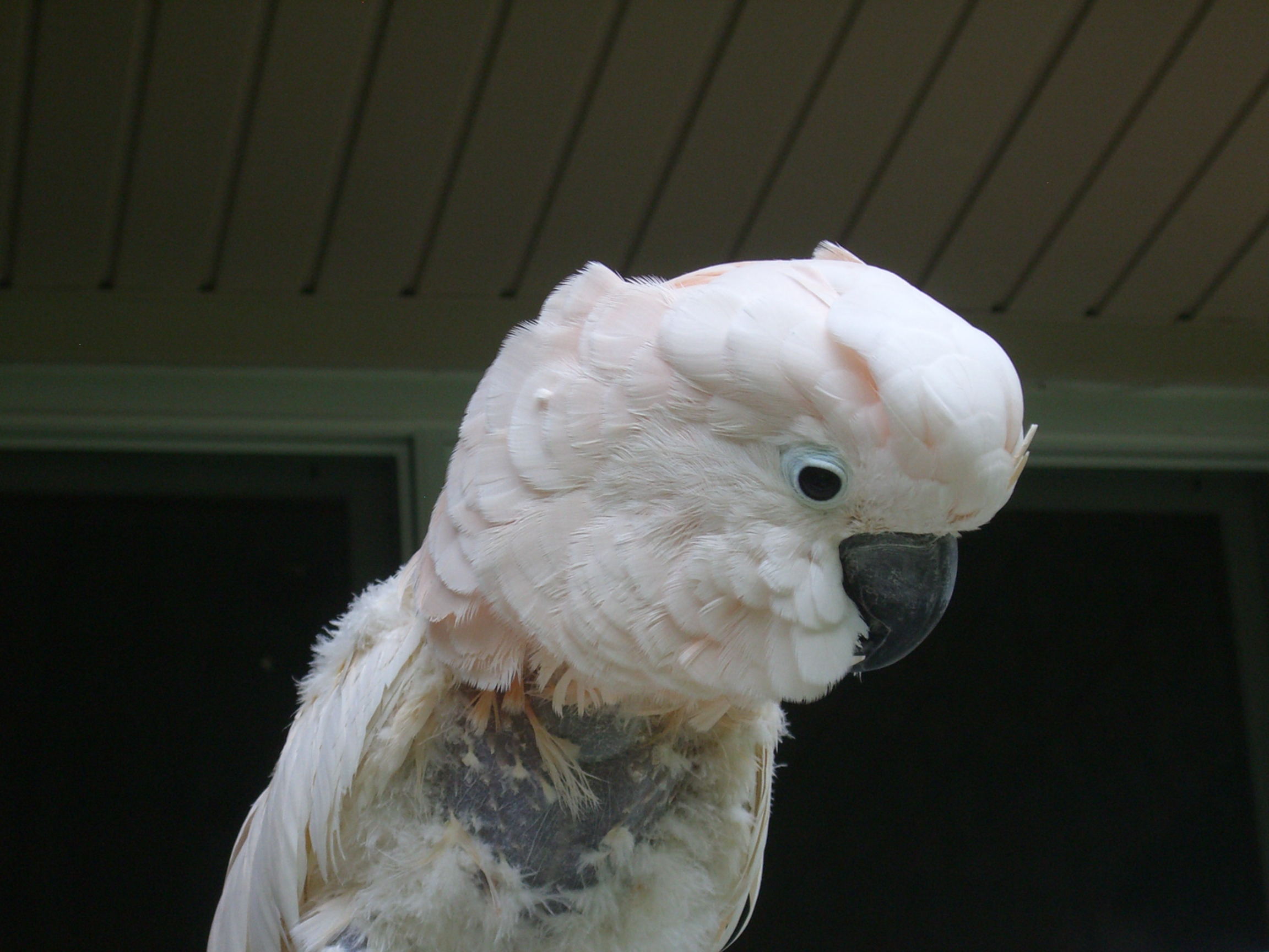 Moluccan Cockatoo (Cacatua moluccensis also known as Salmon-crested Cockatoo. A pet parrot who plucks out her feathers.